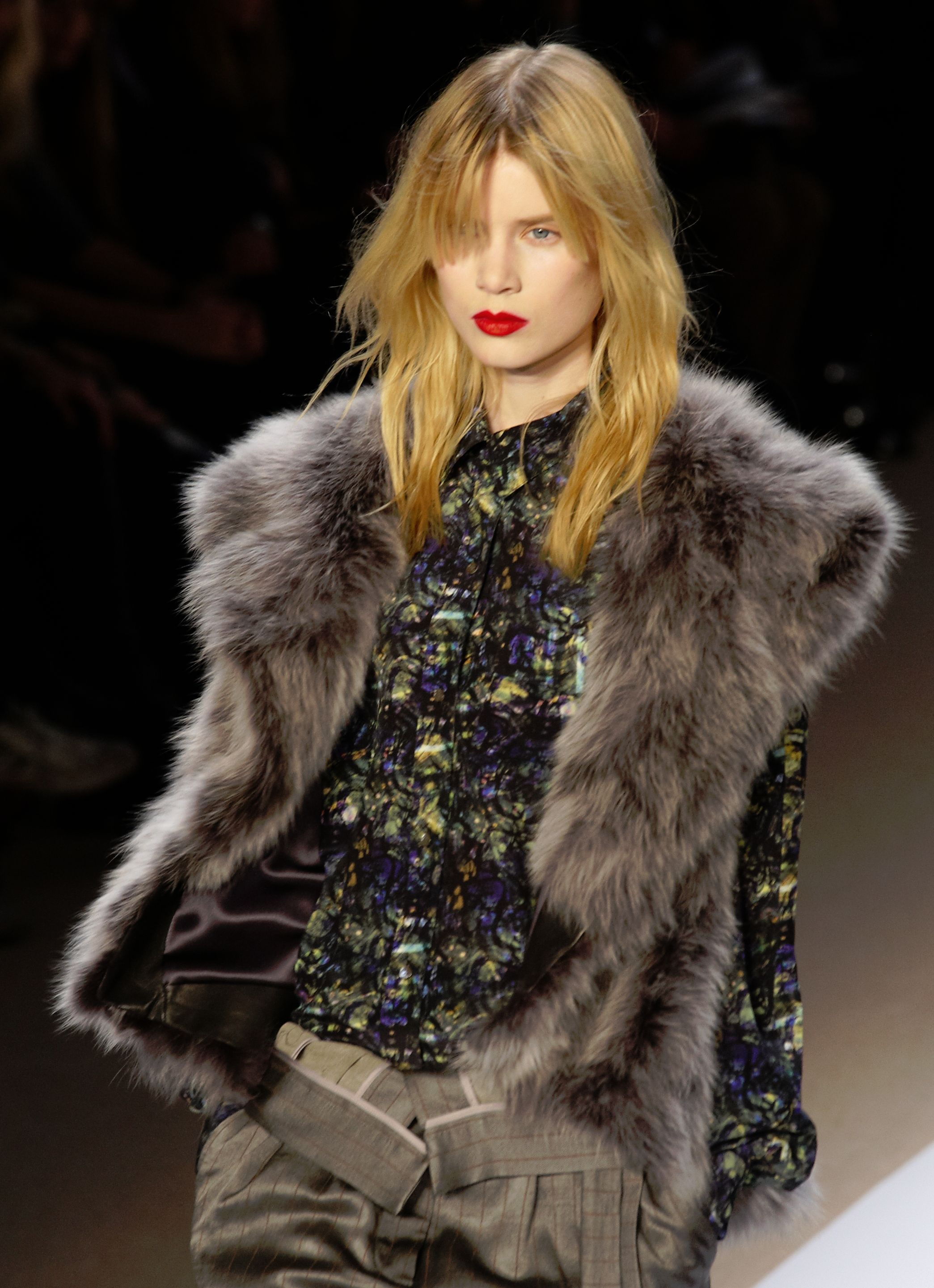 A model walks the runway at the Richard Chai Fall/Winter 2010 show at New York Fashion Week, February 2010 (cropped version).